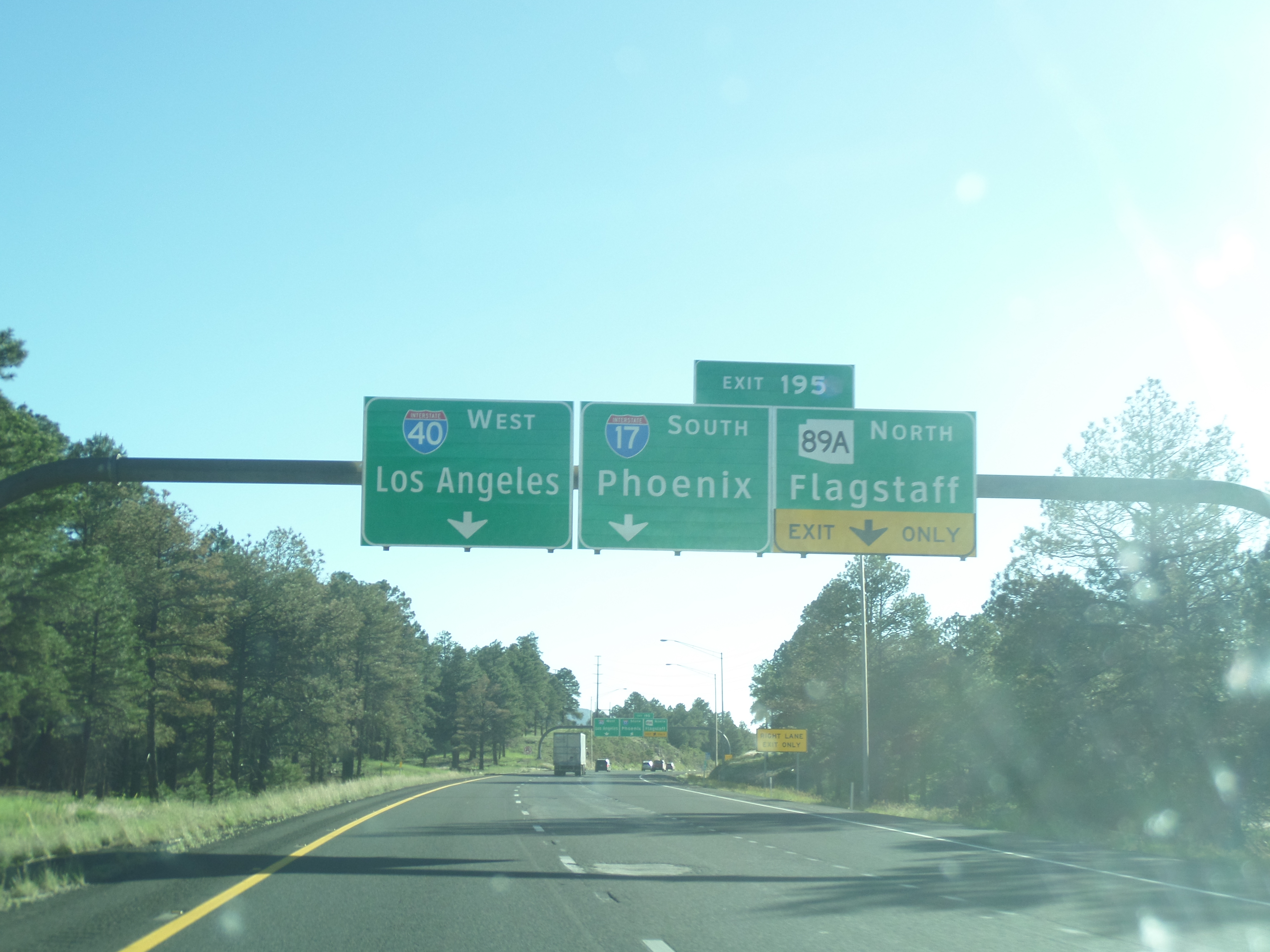 I-40 westbound towards LA, nearing exit 195 in Arizona